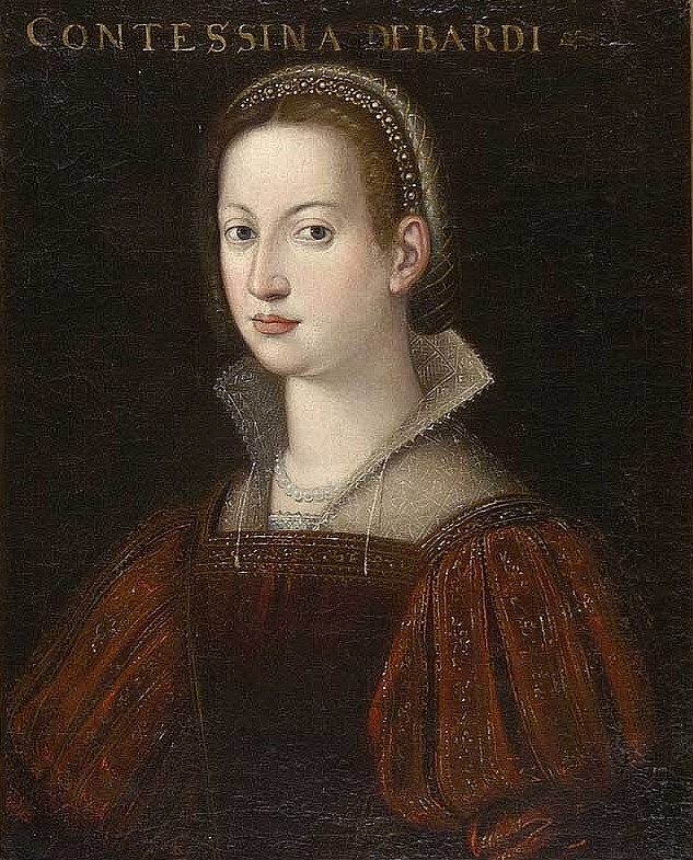 Posthumous portrait of Contessina de' Bardi, wife to Cosimo de' Medici, painted by Cristofano dell'Altissimo in second half of the XVI century.